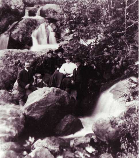 Rose Lambert and her Father and party at the Hadjin Spring.